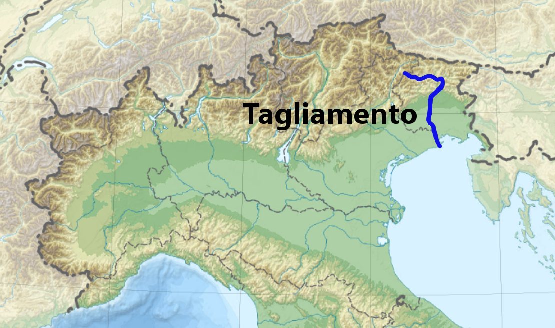 Location of Tagliamento River in North East Italy